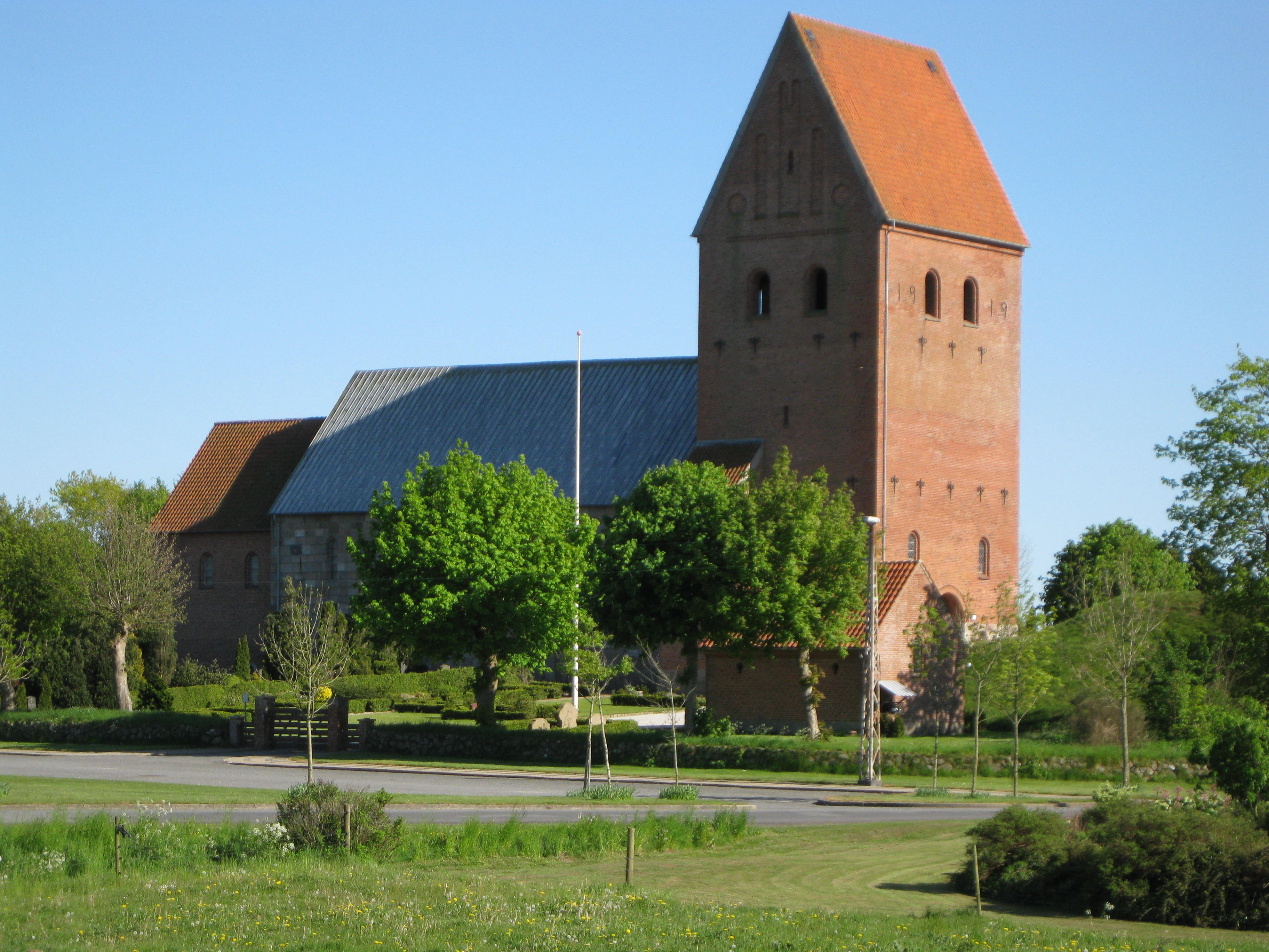 The church "Vamdrup Kirke" in the small town "Vamdrup". The town is located in Kolding Kommune, South-Central Jutland, Denmark.